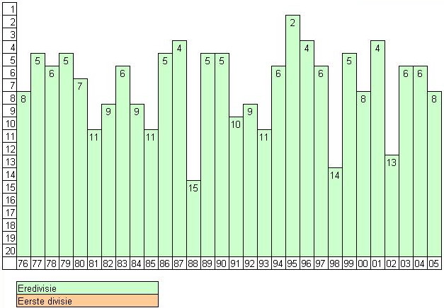 Dutch league positions of Roda JC, last 30 seasons